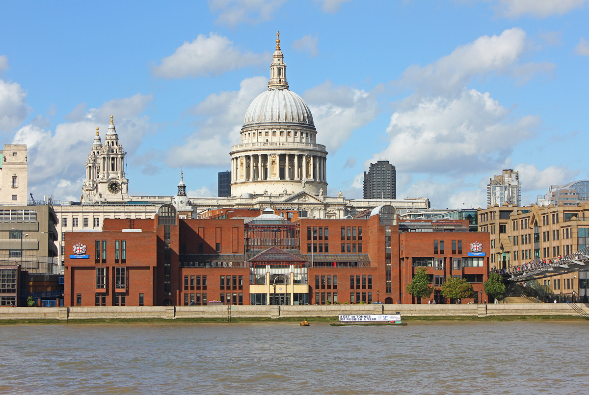 St Paul's Cathedral and the City of London School.